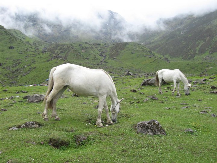 Horses in kedarnath hills